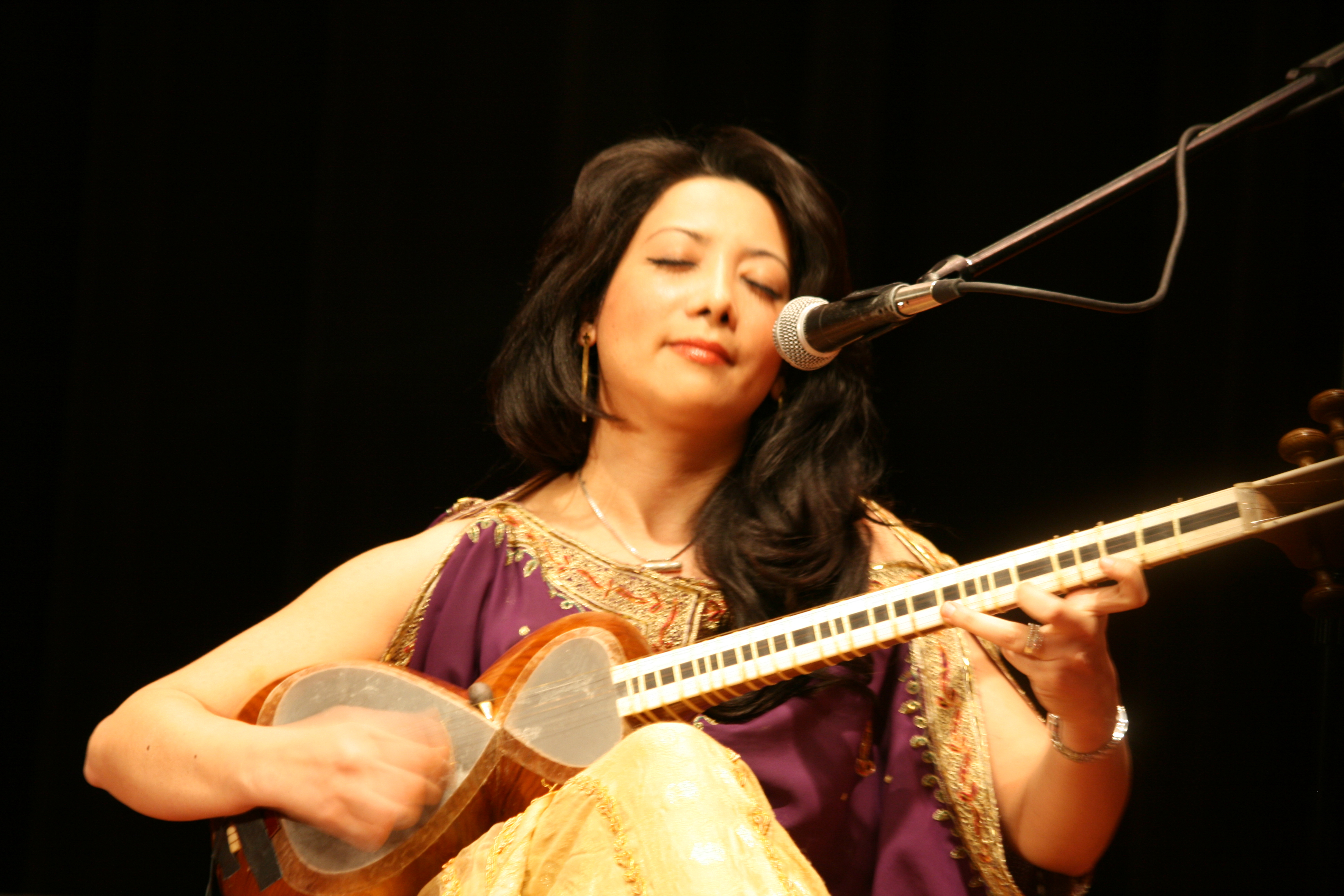 Sahba Motallebi, Iranian femal singer playing tar (lute), Noruz concert, International House, 2010-04-01